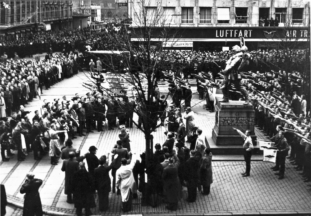 Dato: 17. November 1940 Se flere billeder her: Download and rights: More about The Museum of Danish Resistance (Frihedsmuseet)